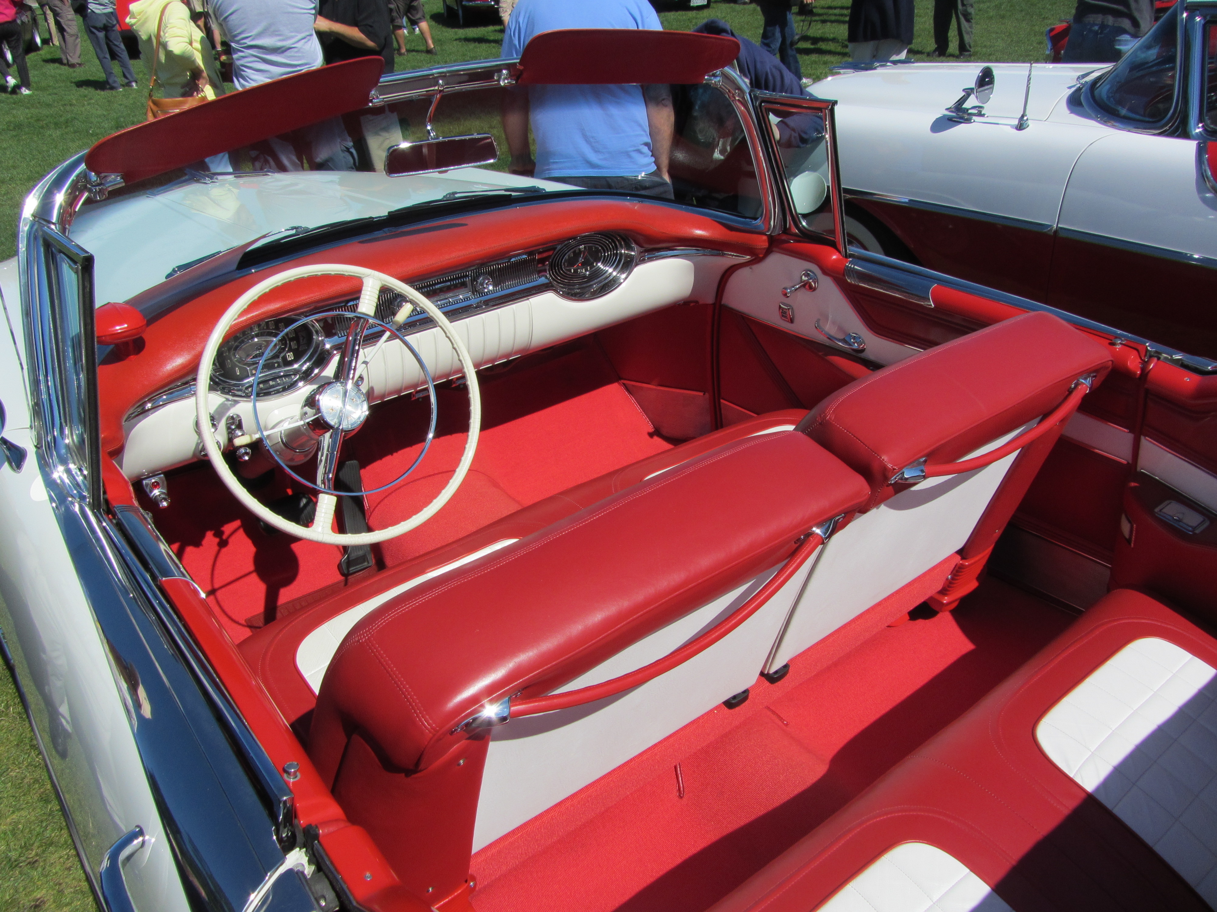 Crescent Beach Concours d'Elegance, Surrey, B. C.